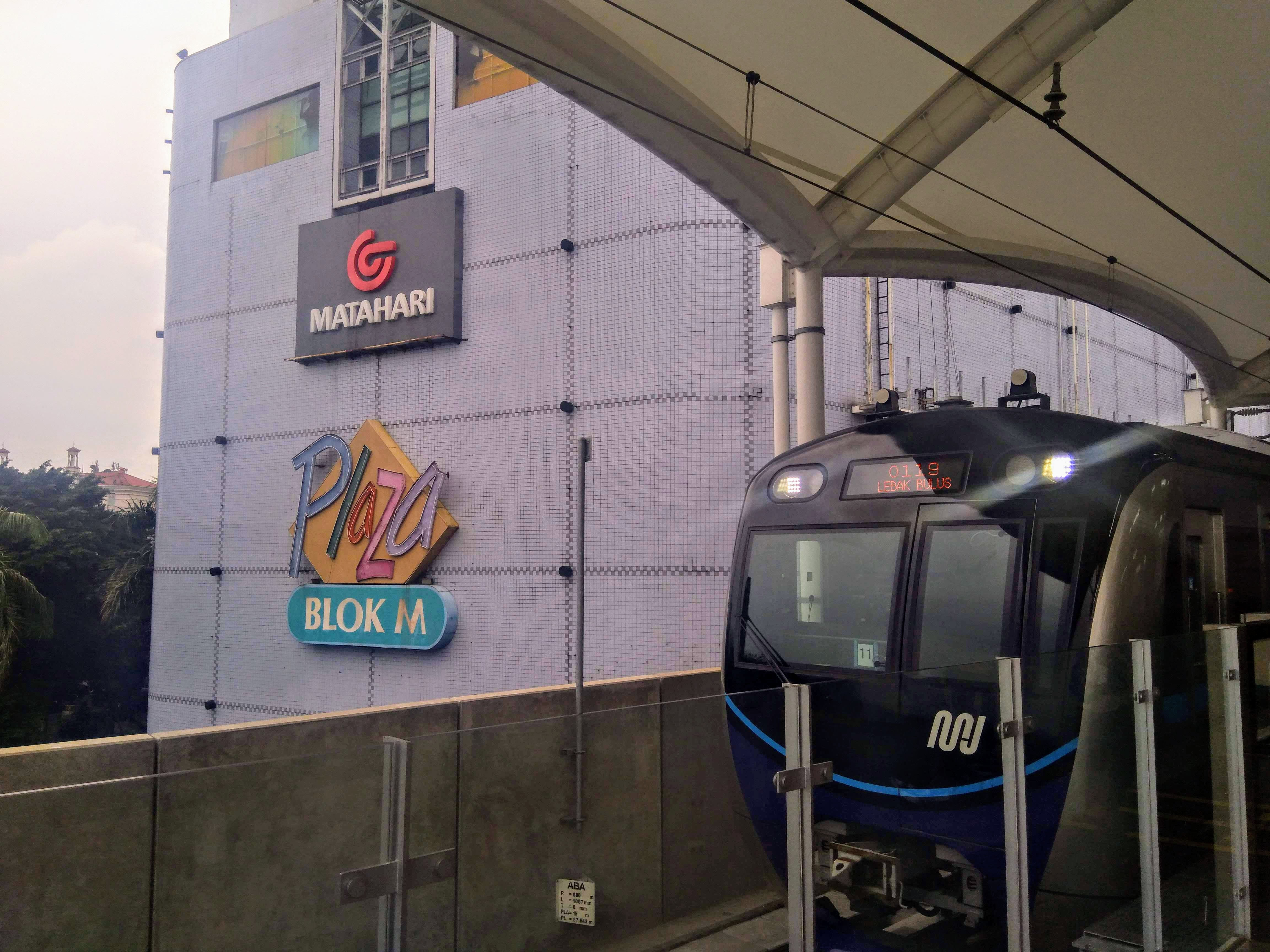 Ratangga in the front of Plaza Blok M, Blok M MRT station is integrated with Plaza Blok M